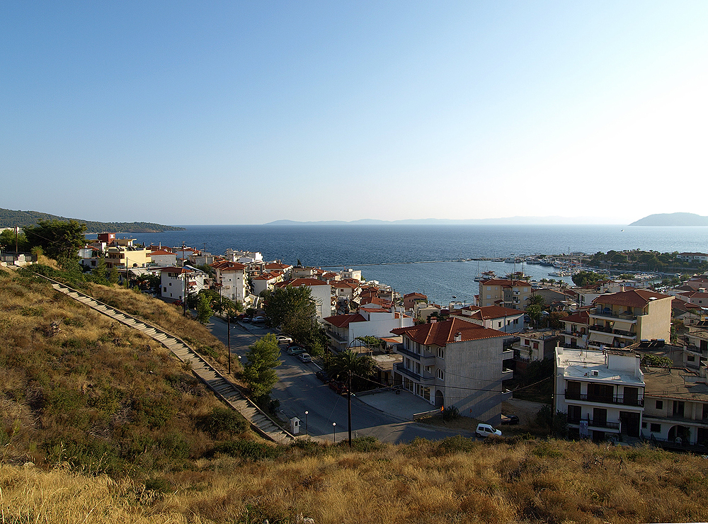 Neos Marmaras Marina, Sithonia, Halkidiki, Greece